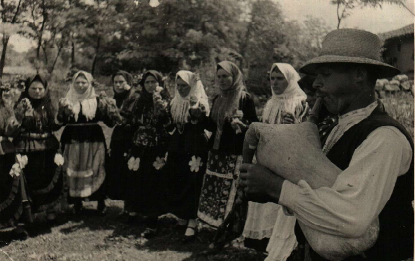 Wedding ceremonies in Bulgaria